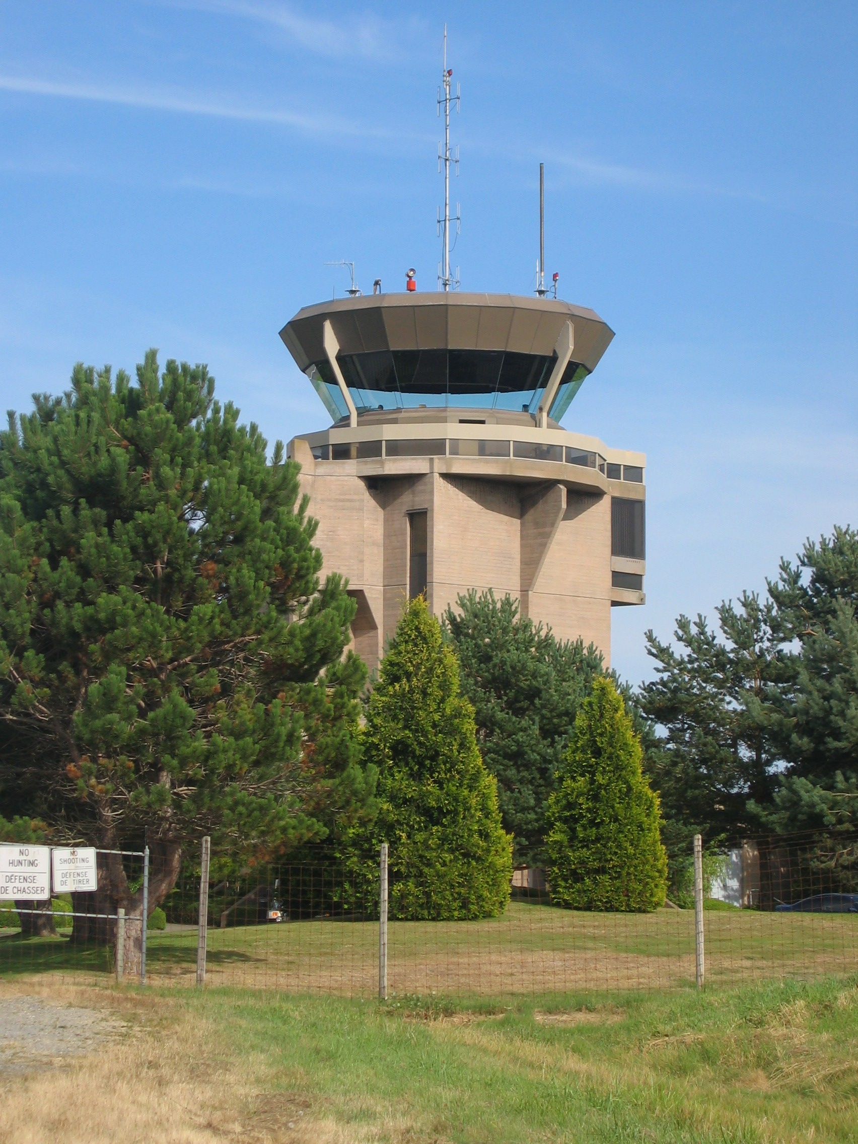 The Control tower at Boundary Bay Airport. Picture taken by me on August 22, en:2005. -Lommer